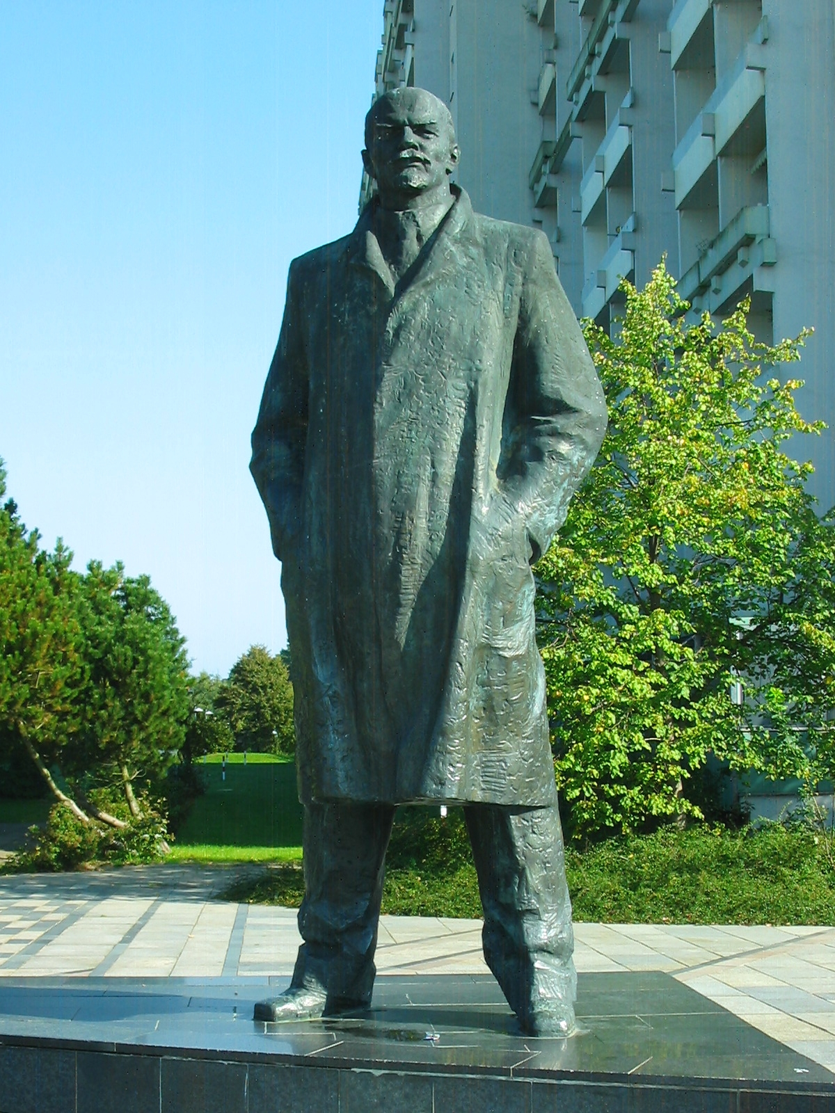 Statue of Lenin in Schwerin, Germany